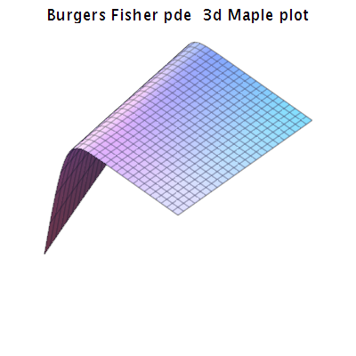 Burgers Fisher PDE 3d Maple plot